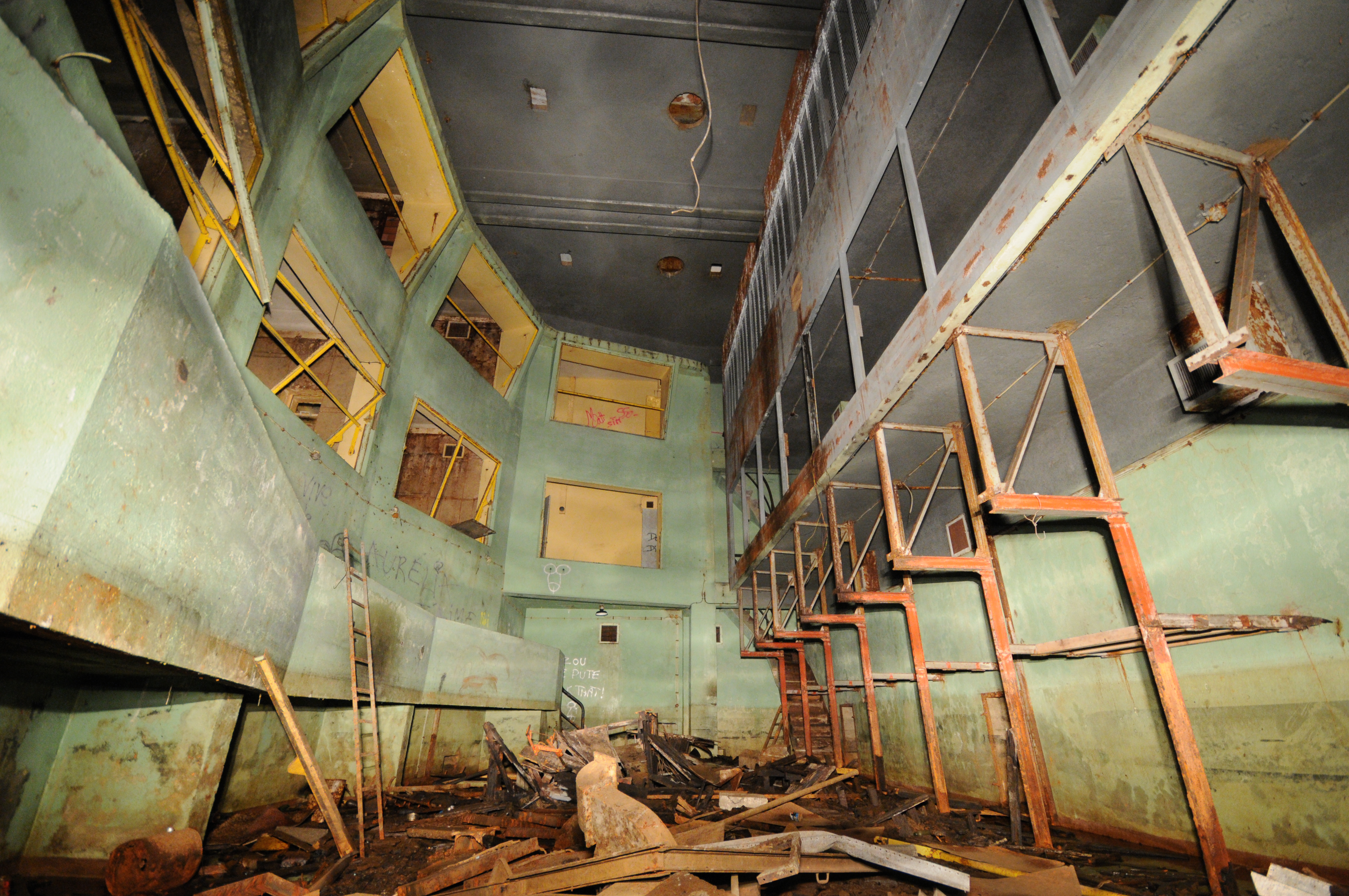 This photograph was taken with a Nikon D300 La salle d'opérations. Salbert hill fortifications. Old NATO station (lightpainting).